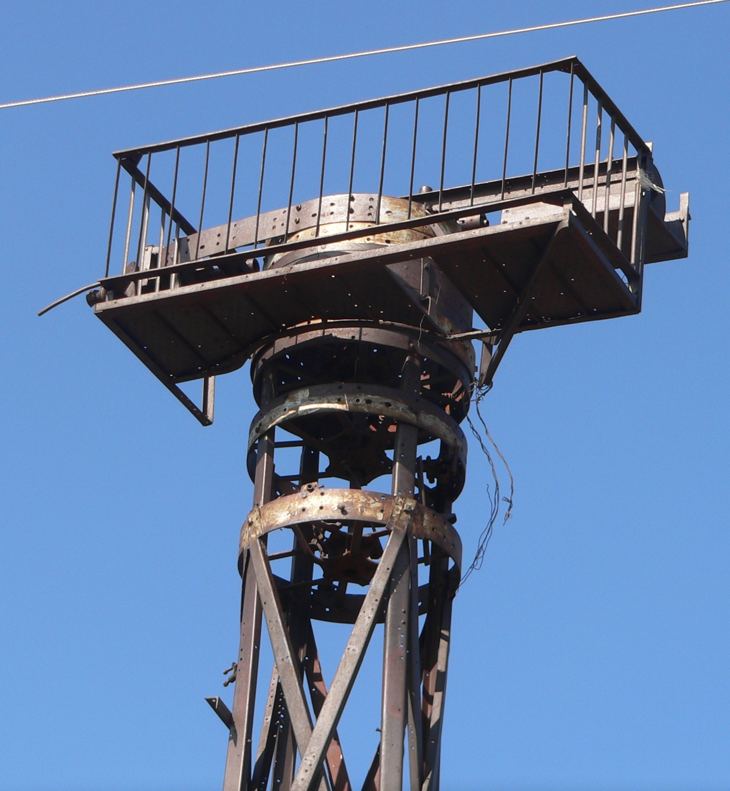 Pinkie's Corner, located on U.S. Highway 6 in Chase County, Nebraska: top of wind charger.